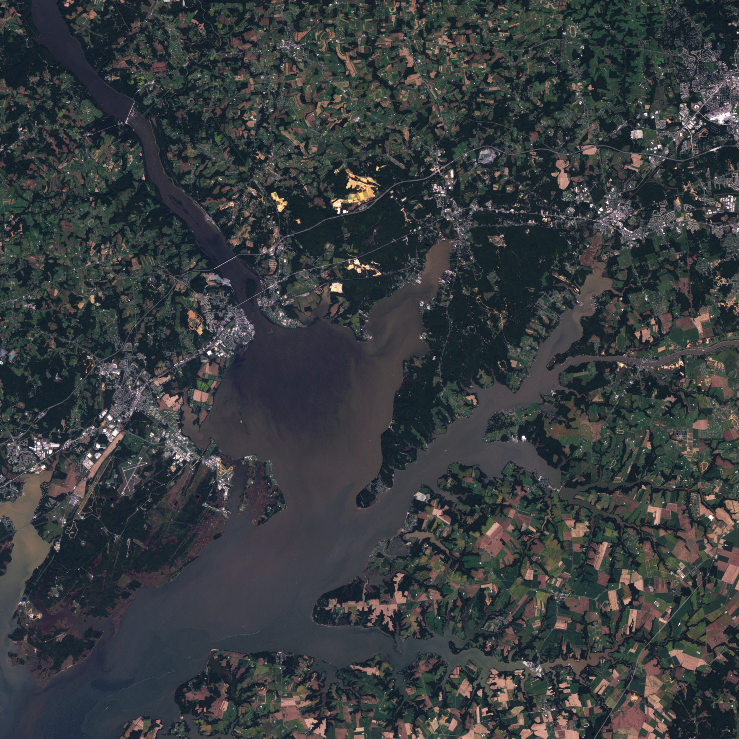 Satellite image of Chesapeake Bay where the Susquehanna River empties into it. The cities of Havre de Grace, Maryland (southwest bank) and Perryville, Maryland (northeast bank) are visible as well.